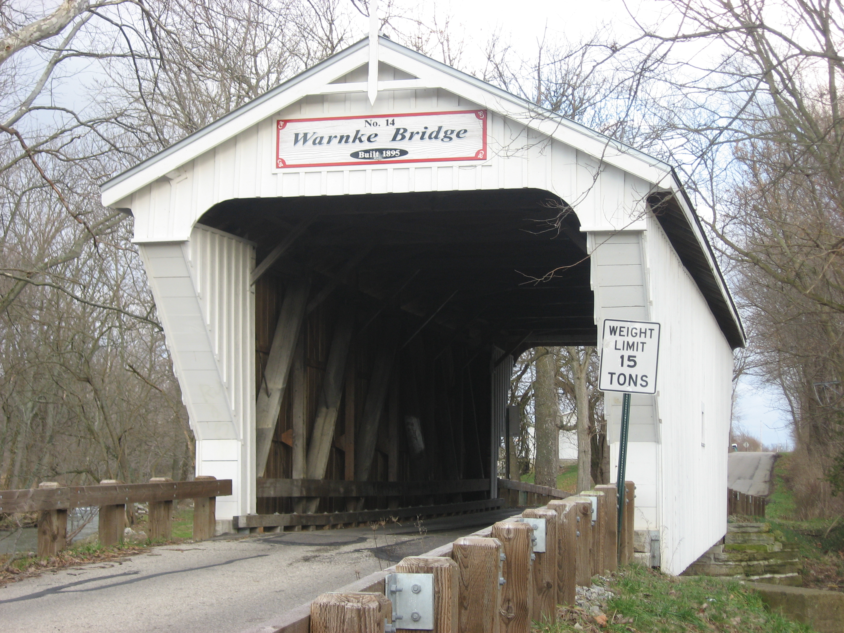 Western portal and southern (downstream) side of the Warnke Covered Bridge, which carries Swamp Creek Road over Swamp Creek northeast of Lewisburg in Harrison Township, Preble County, Ohio, United States. Built in 1895, it is listed on the National Register of Historic Places.